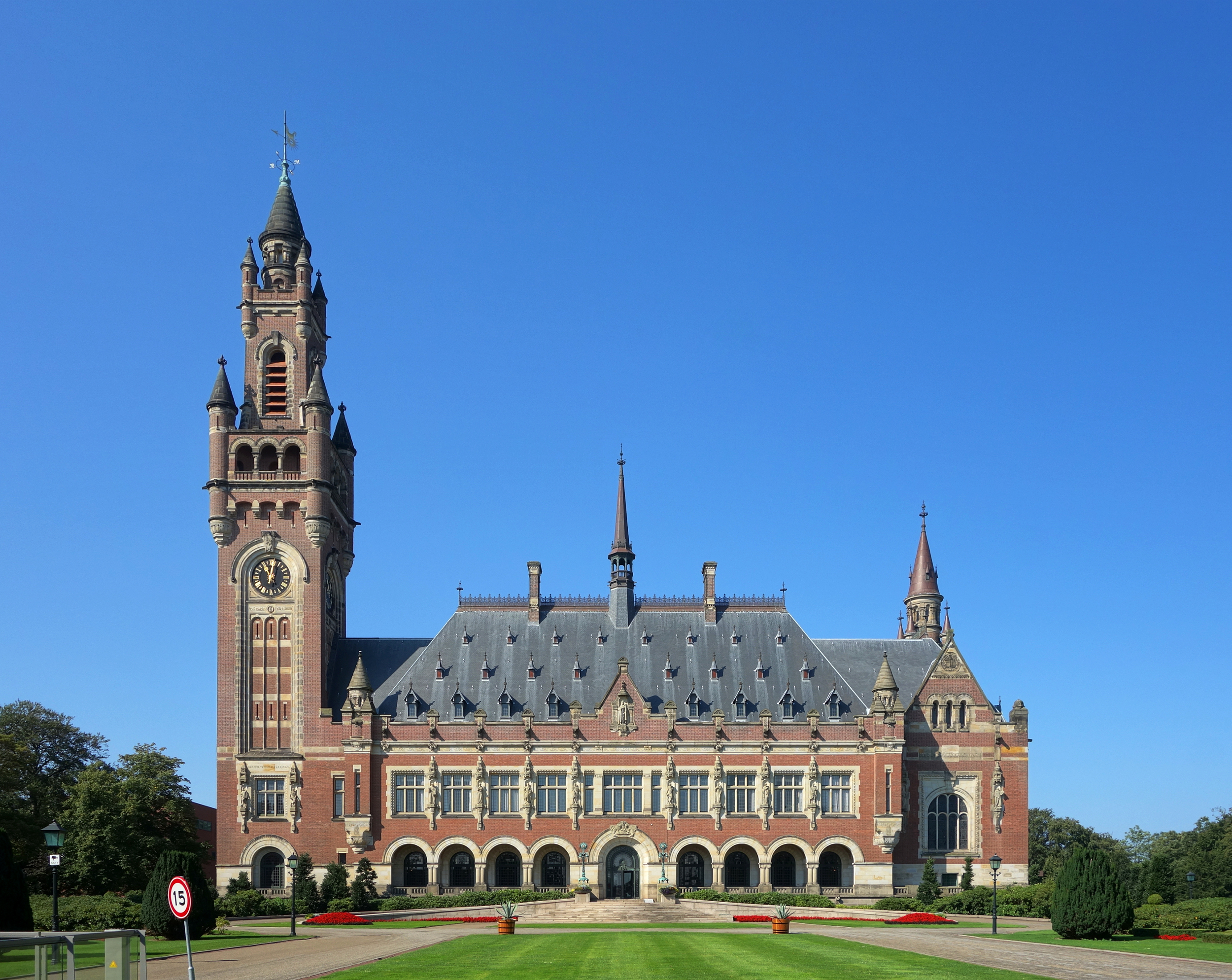 Peace Palace (1907), The Hague - seat of the International Court of Justice